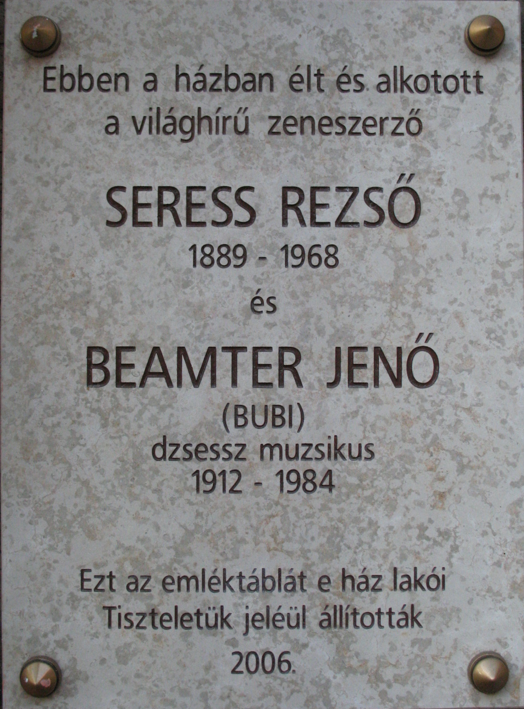 A plaque commemorating the musicians Rezső Seress and Bubi Beamter placed on the house they lived in, Dob utca 46/b, Budapest, Hungary.